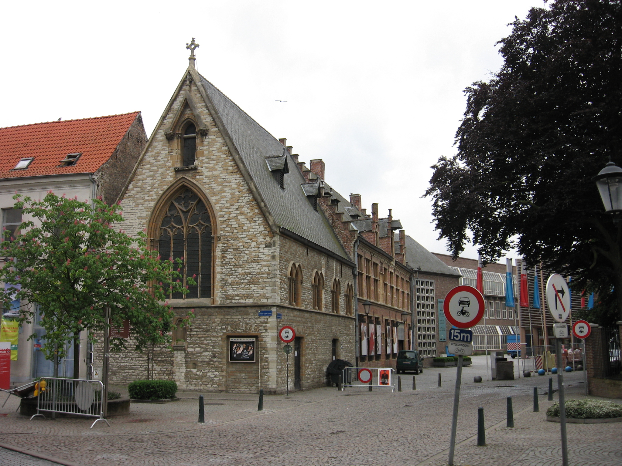 Minderbroedersgang